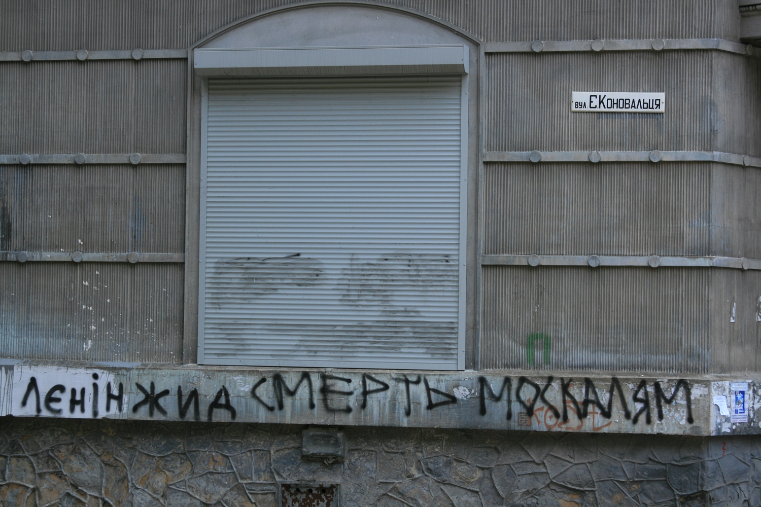 Xenophobic graffiti at a building in the Yevhen-Konovalets-street in Lviv: "Lenin [is a] Jew, death [to] moskals".